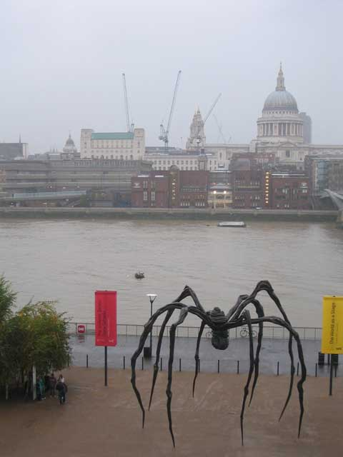 Thames with Bourgeois spider